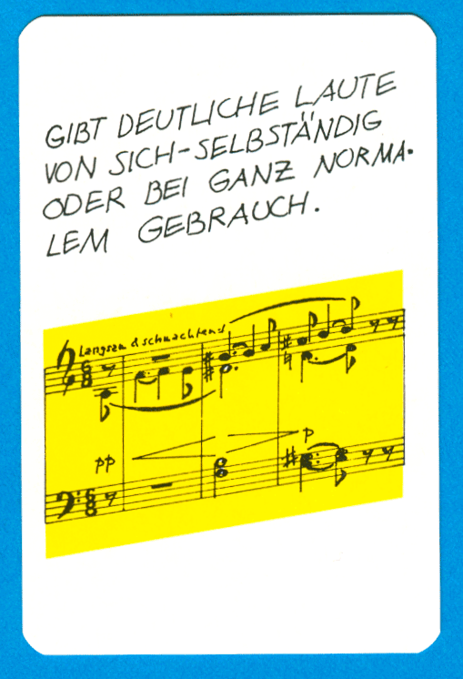 Card for game "Ein solches Ding"